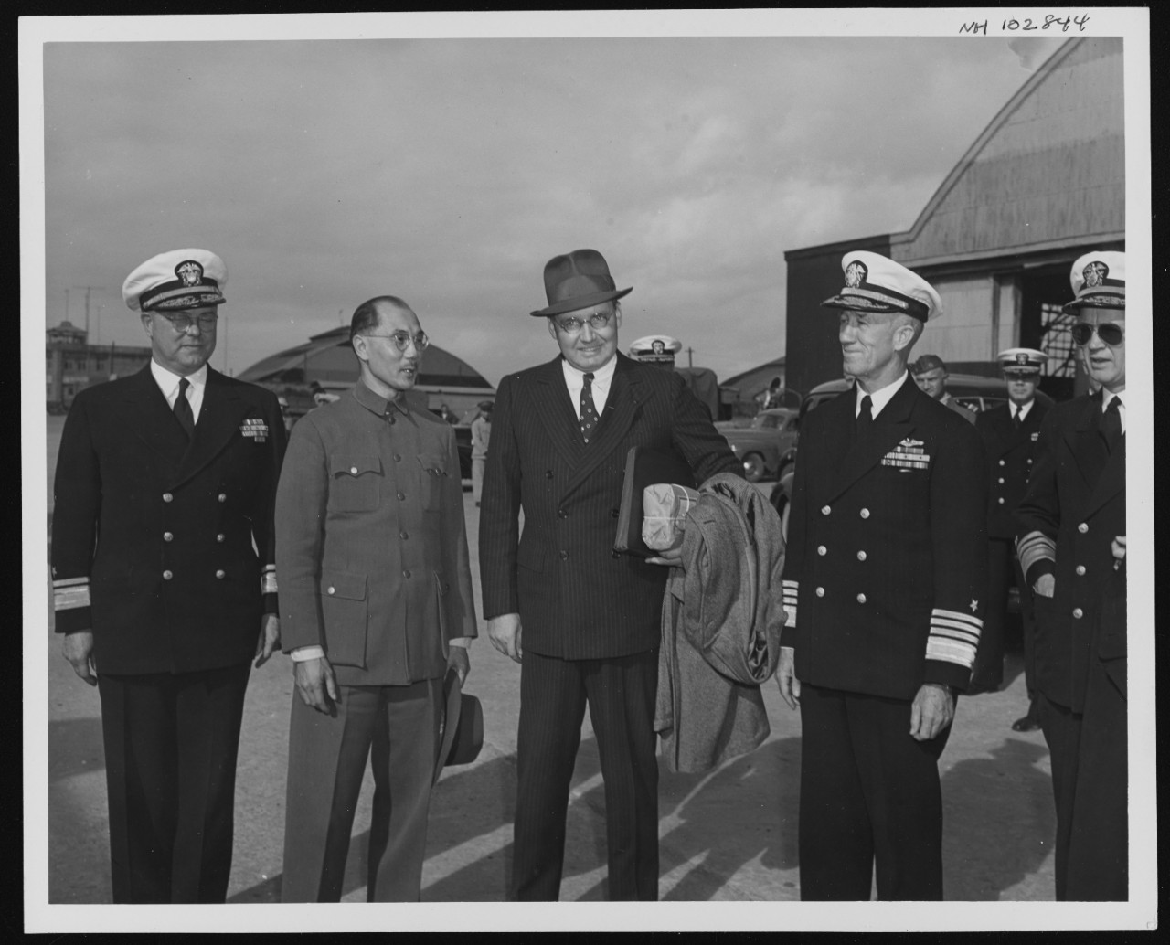 Assistant Secretary of the Navy W. John Kenney (In the center) arrives at Kiangnan Dockyard, Shanghai, China, 9 November 1946. Among the others present are Rear Admiral Willard A. Kitts III (1st from left); Admiral Charles M. Cooke, Jr., USN (2nd from right) and Vice Admiral Robert B. Carney, USN (extreme right with glasses). Courtesy of the Naval Historical Foundation. Collection of Admiral Robert B. Carney, USN. Official U.S. Navy Photograph, from the collections of the Naval History and Heritage Command.